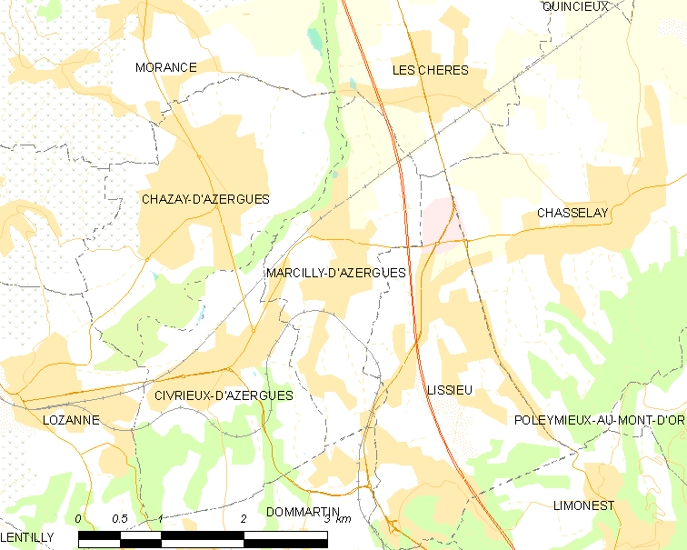 Map of French municipality